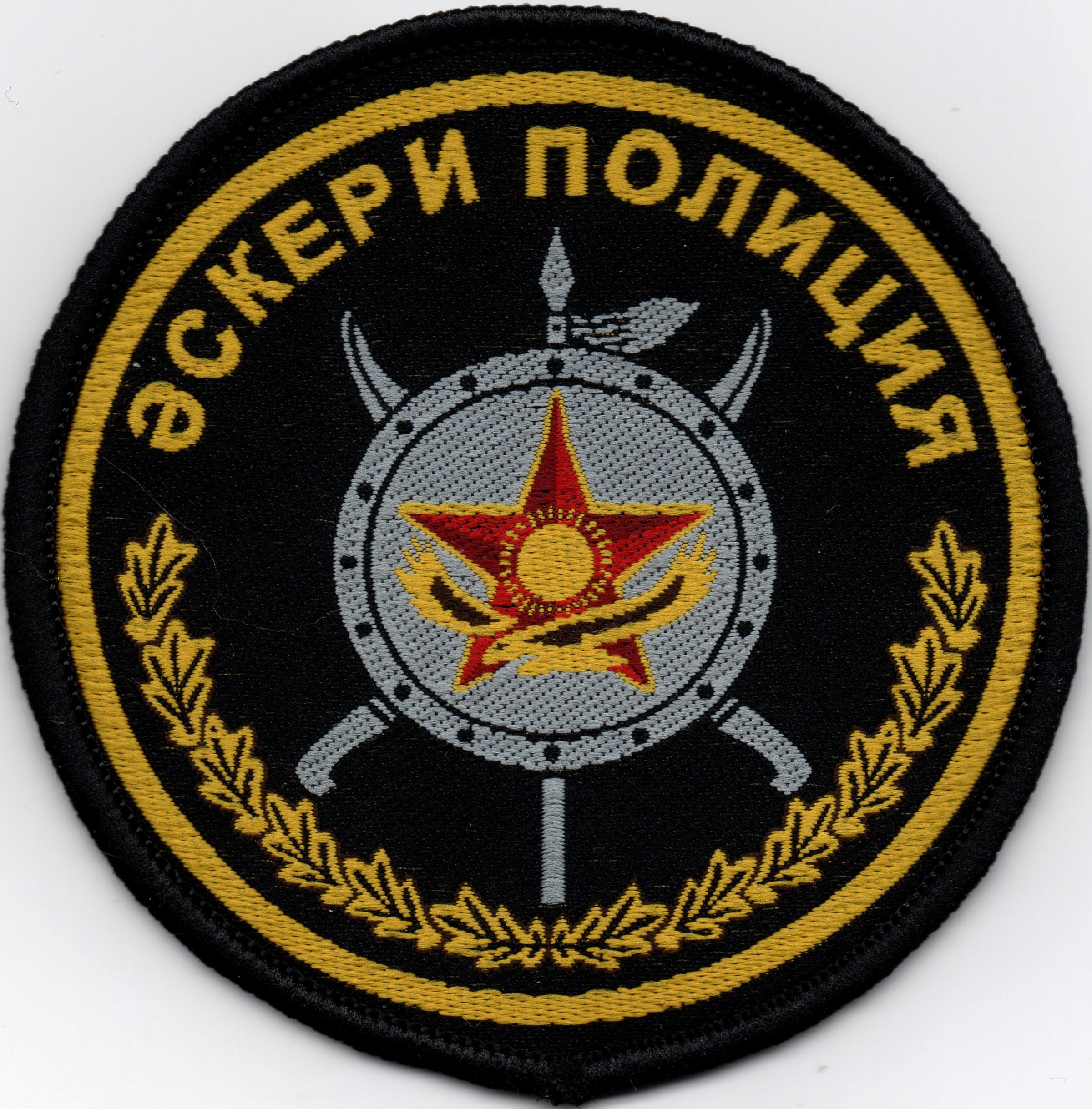 Kazakh Military police Shoulder Sleeve Insignia